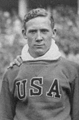 Jesse Owens (left), Ralph Metcalfe (second left), Foy Draper (second right) and Frank Wykoff (right), the USA 4x100 metres Relay Team at the 1936 Olympic Games in Berlin. The USA won the gold medal in this event